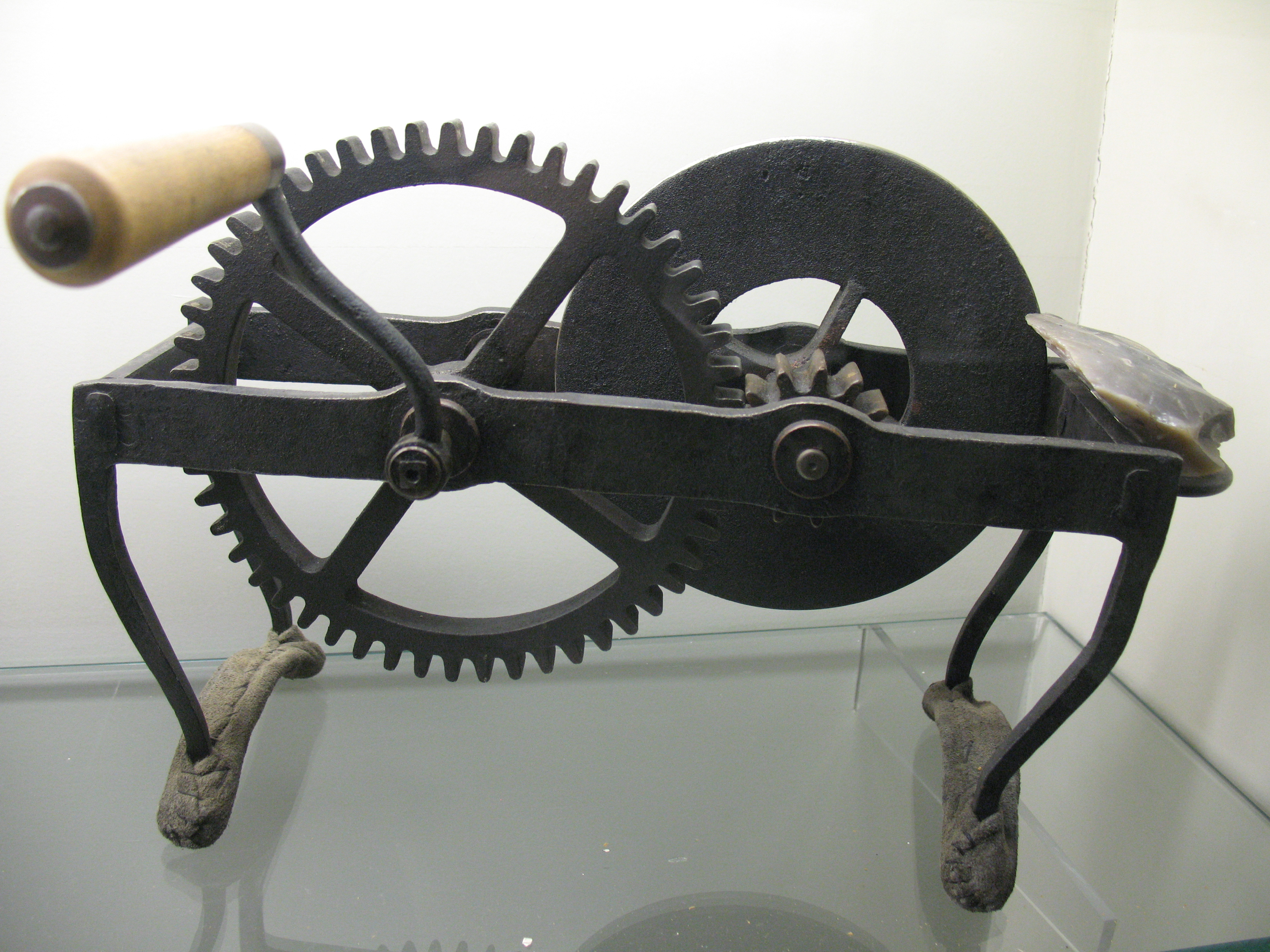 Flint and steel mill, predecessor of safety lamps. Invented in the early 17th century at Newcastle-upon-tyne by Carlisle (also: Carlyle or Charles) Spedding (*1696, †1755). By turning the handle the steel wheel will rotate fast. The operator pressed a flintstone against the wheel, resulting in a huge spark fountain. It was believed in that time that the temperatur of the sparks was so low, they couldn't ignite possible firedamp. This was, however, not true. German mining museum, Bochum, Northrhine-Westfalia, Germany.